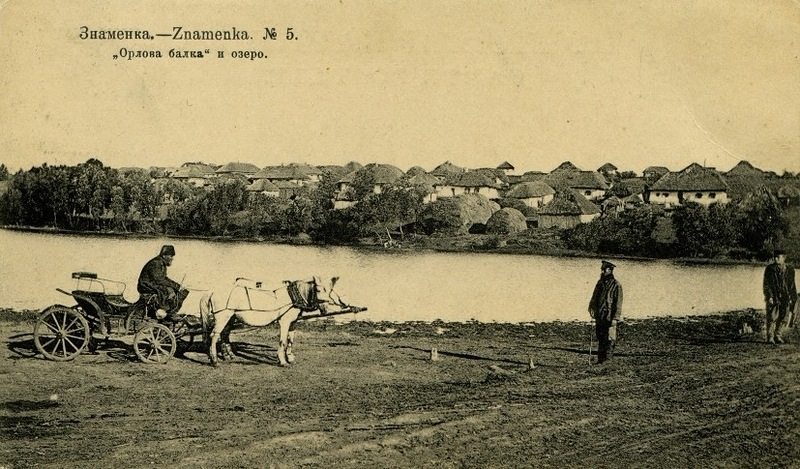 Orlova balka. Pictures of Ukraine before 1905